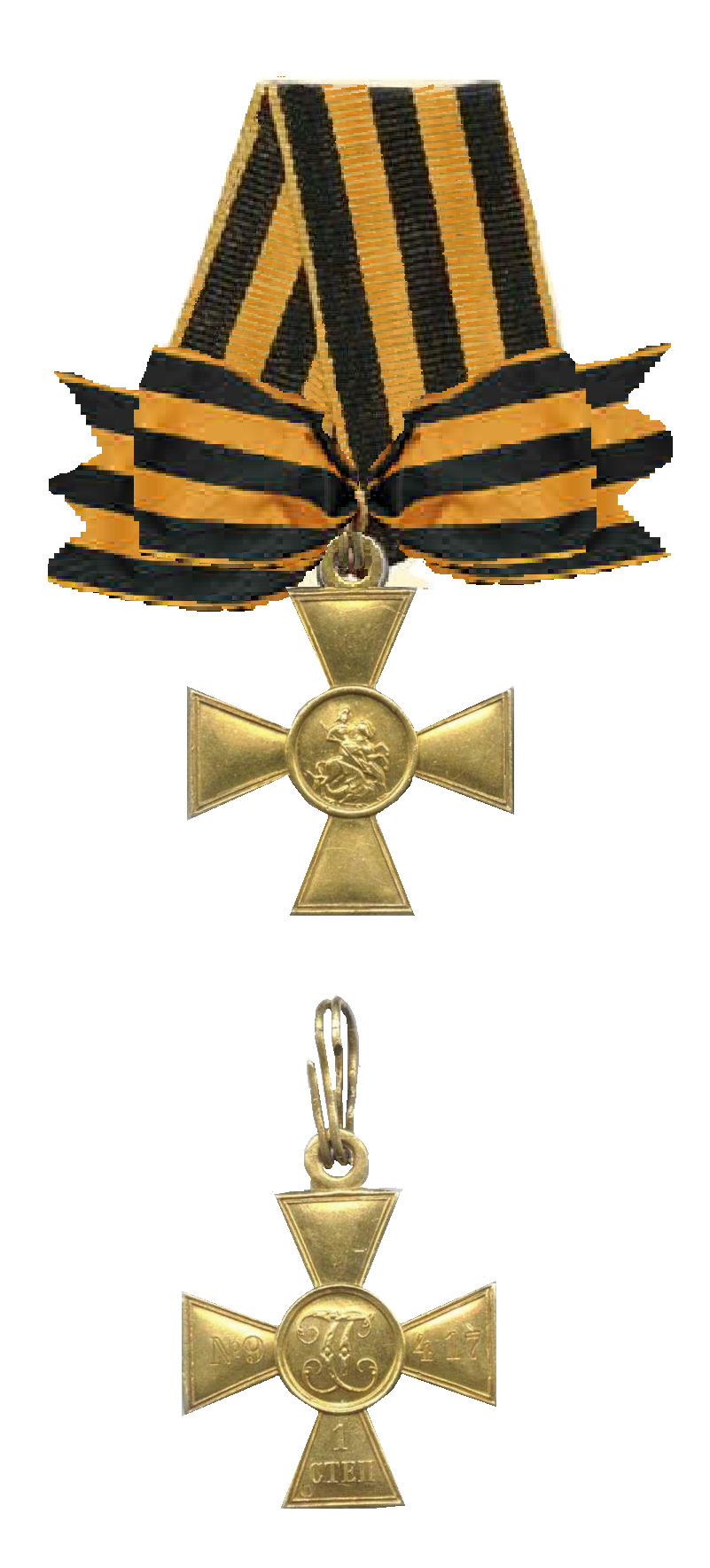 Saint Georgecross Imperial Russia